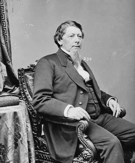 Samuel Carr Forker (1833 - 1916), a U.S. Representative from New Jersey